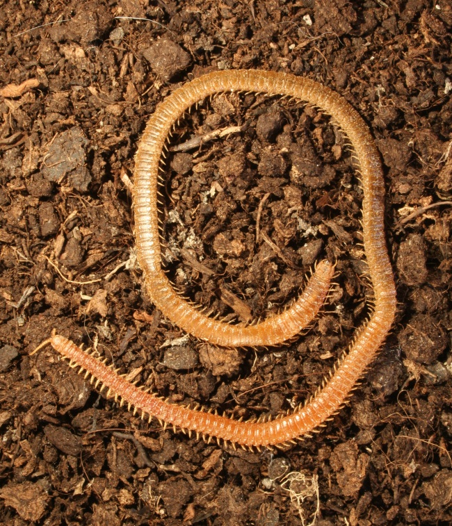 Centipede (Chilopoda, Geophilomorpha)